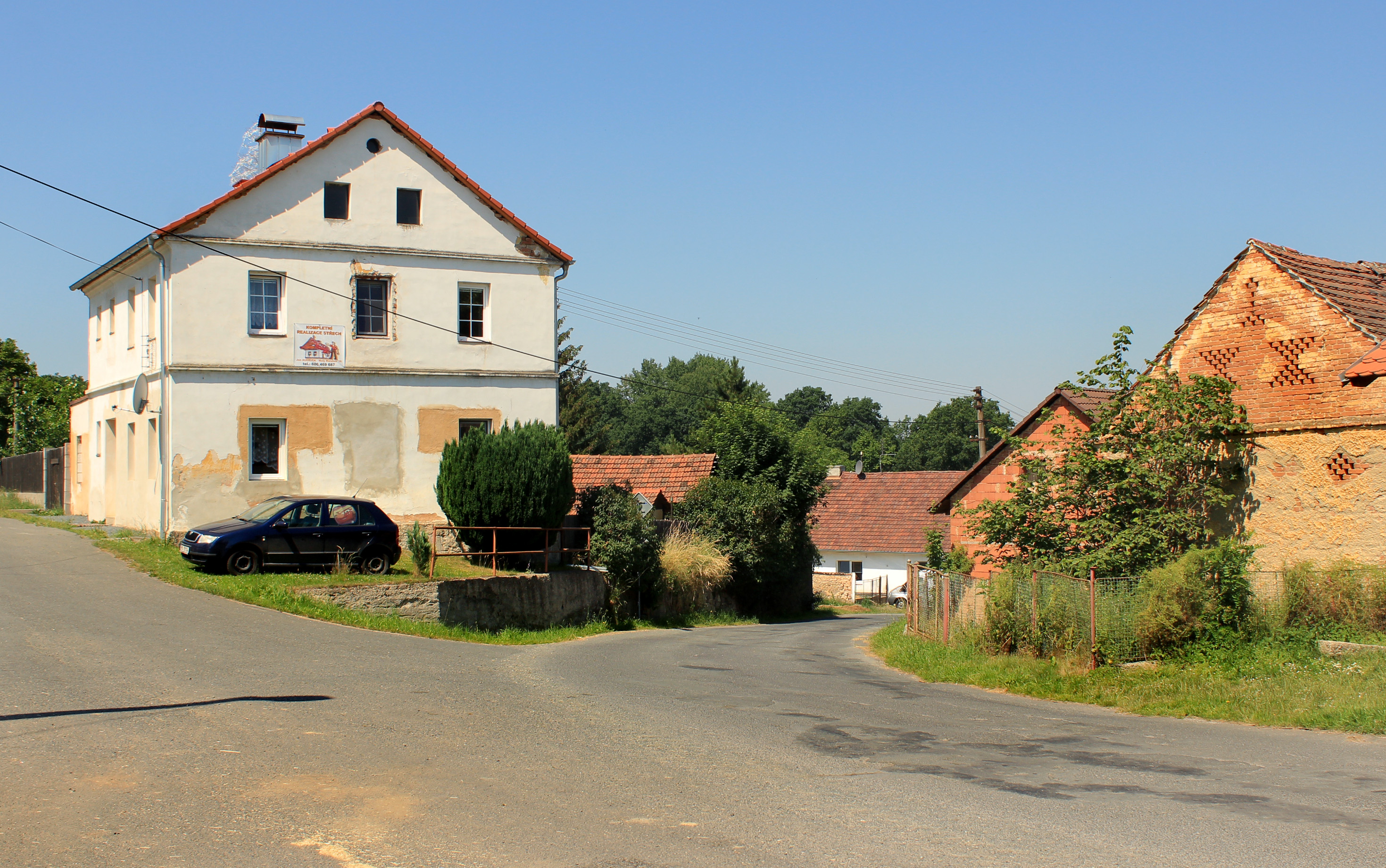 House No 41 in Bukovec, Czech Republic.